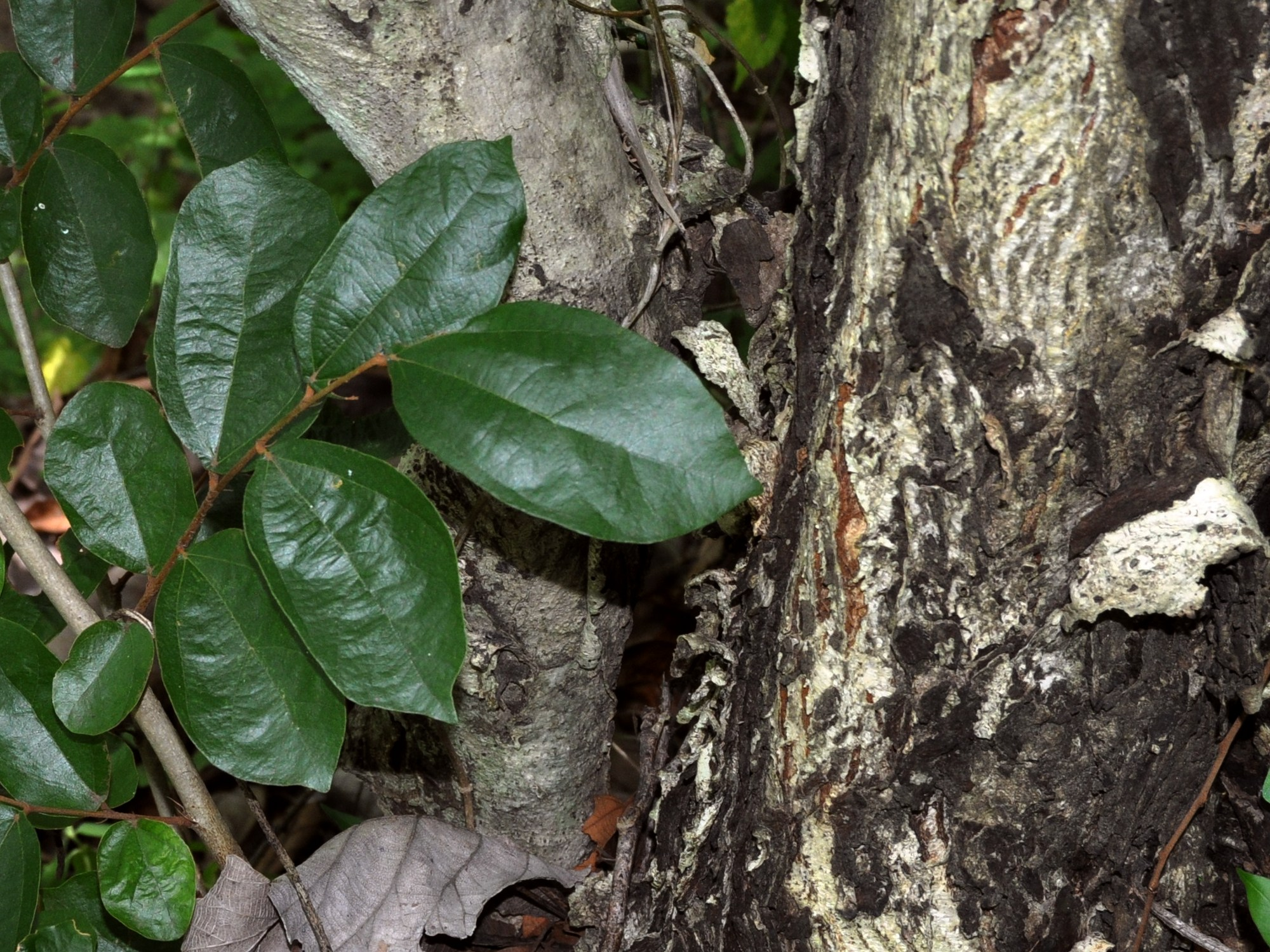 Schoutenia ovata. From Ngawi, East Java, Indonesia.